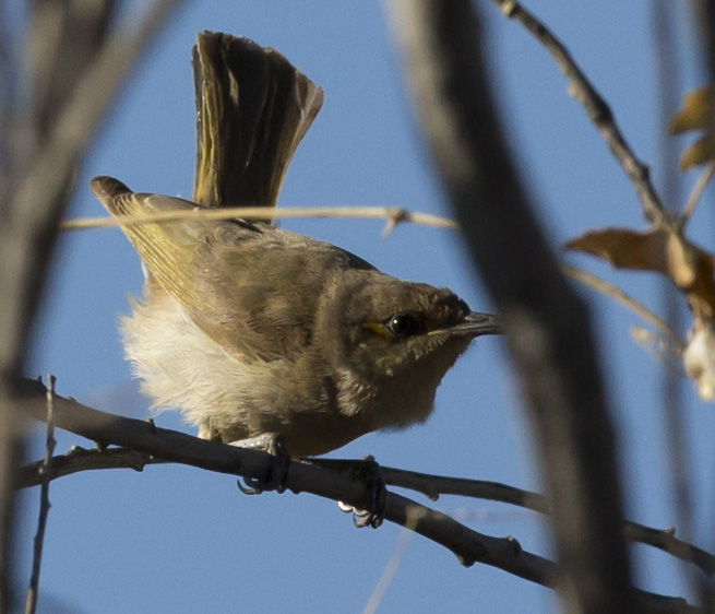 Female of purple-backed fairywren (Malurus assimilis), Karratha (Pilbara)